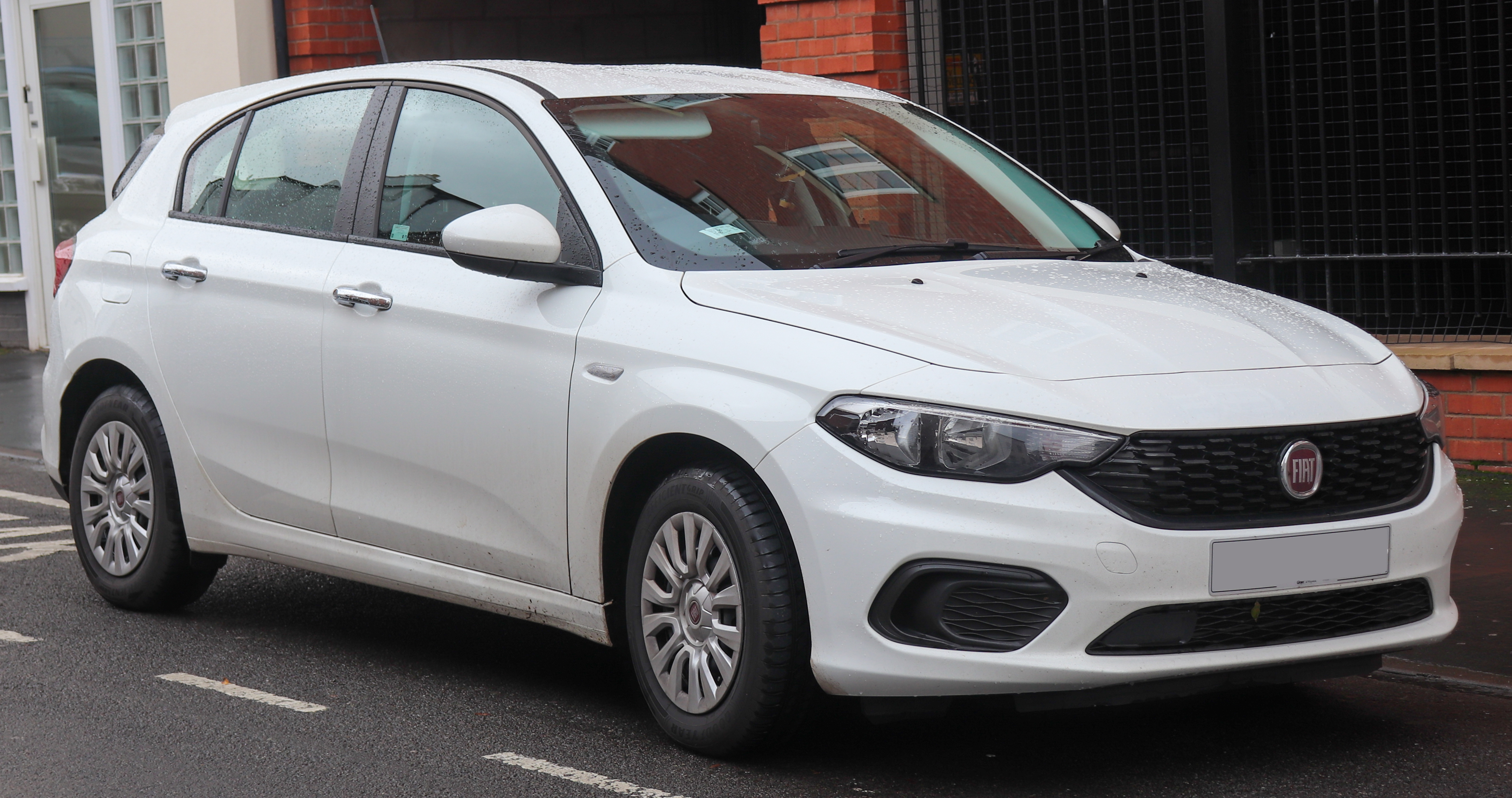 2018 Fiat Tipo Easy 1.4 Front Taken in Leamington Spa